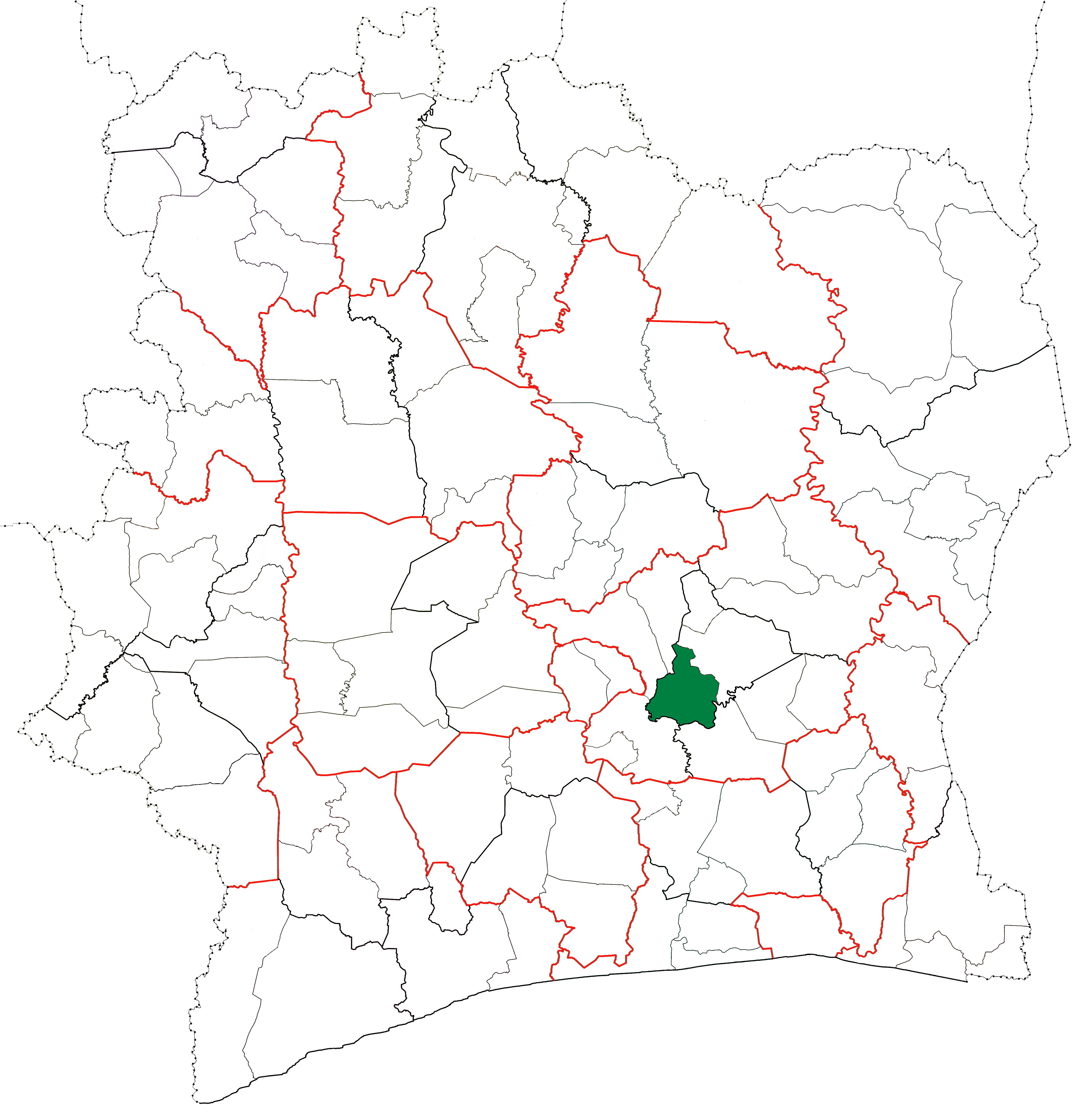 Locator map for Dimbokro Department in Côte d'Ivoire.